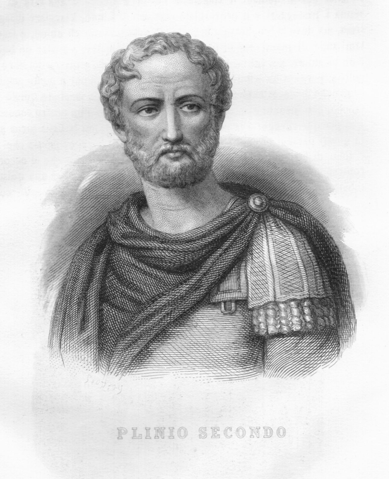 Plinio Secondo